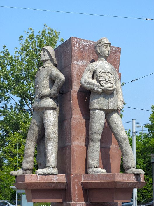 3 Men Monument in front of Main Station, Herne/Wanne-Eickel, Germany. the three men, a miner, a boatsman and a railwayman, sybolizise the (former) enconomic strength of Wanne-Eickel, Herne.